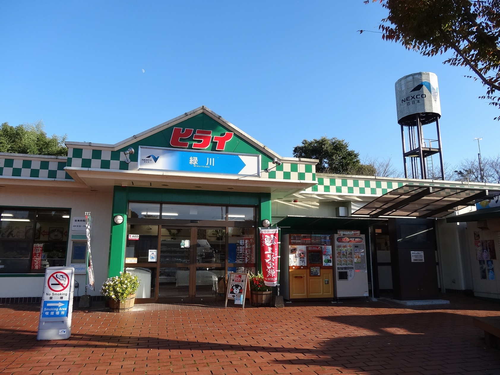 Midorikawa Rest Area Eastern side (Kyushu Expressway - Kosa Town, Kumamoto, Japan)